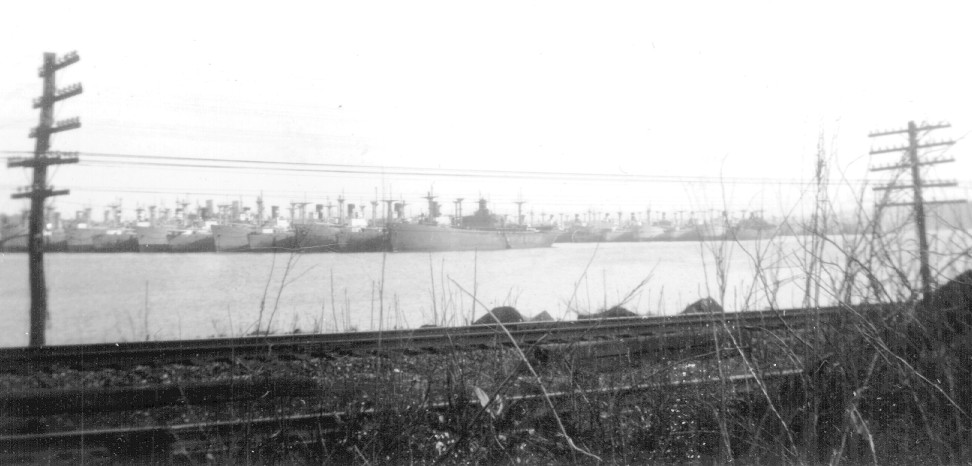 The “Mothball Fleet” was moored in the Hudson River between Jones Point and Tompkins Cove, across from Buchanan, NY as depicted in this 1950s era photograph from 1946 to 1971. It was part of the National Defense Reserve Fleet, established by act of Congress in 1946.